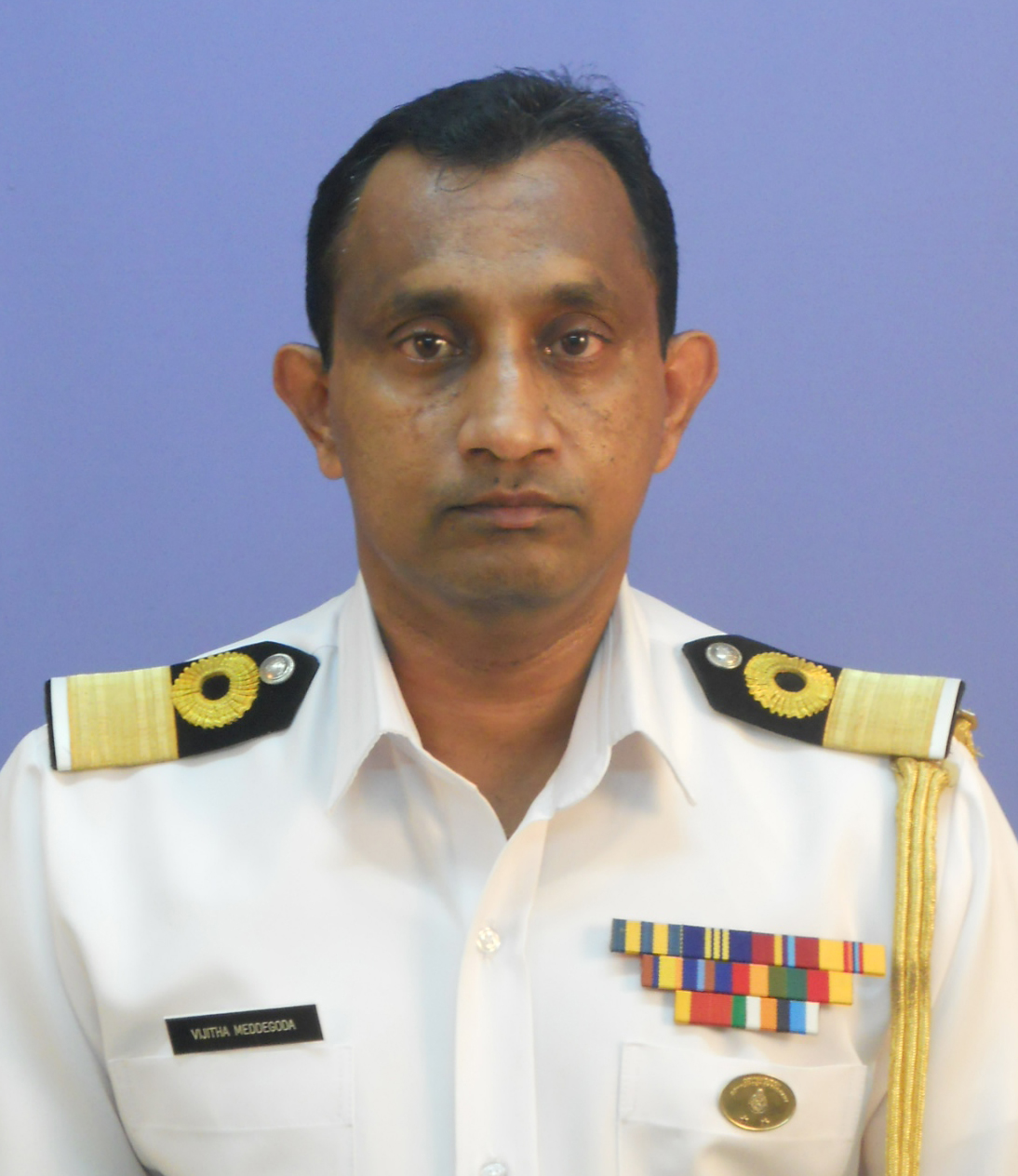 ෙකාමෙදා්රු විජිත මැද්ෙද්ෙගාඩ